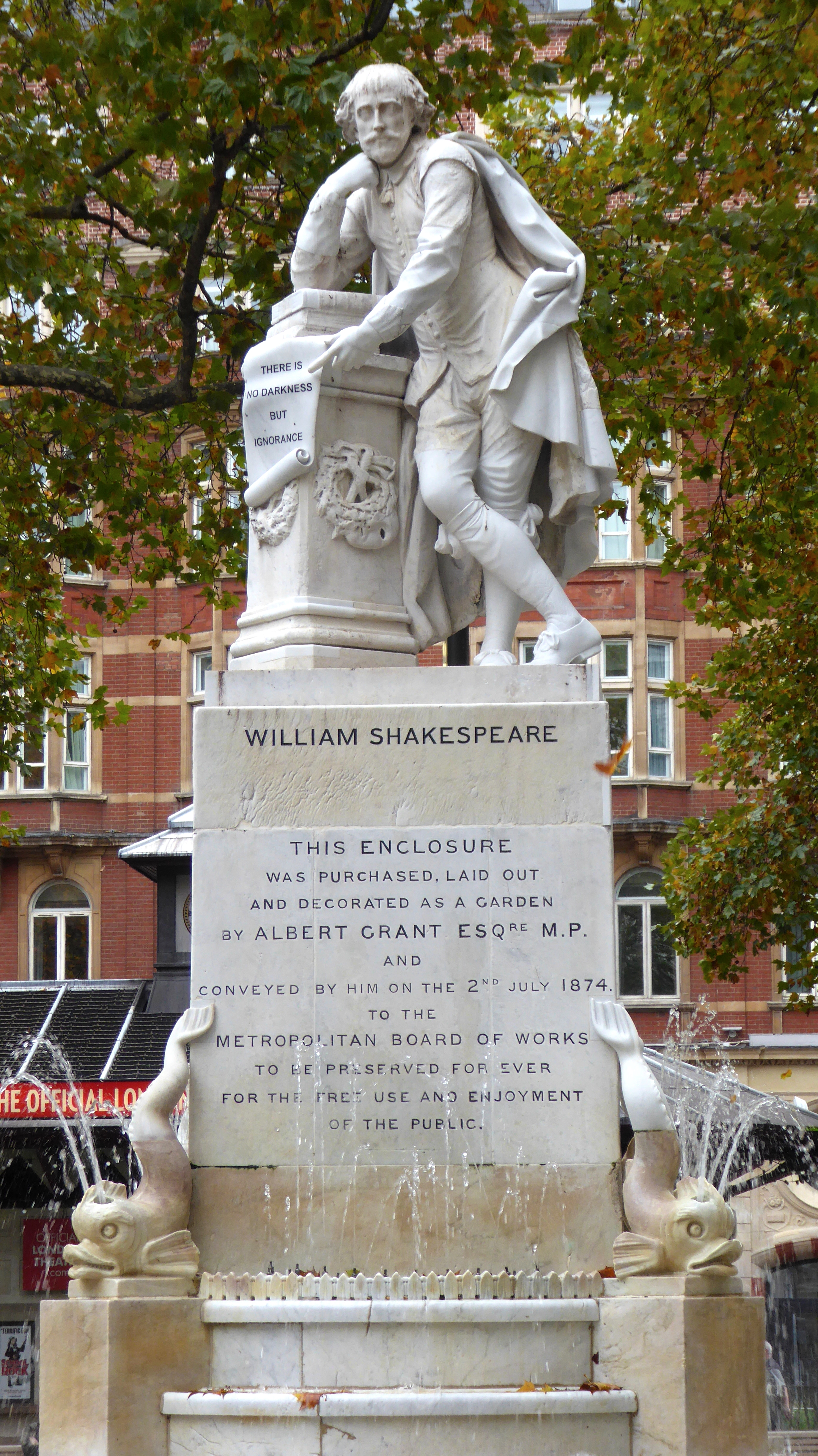 The statue of William Shakespeare in Leicester Square, City of Westminster.